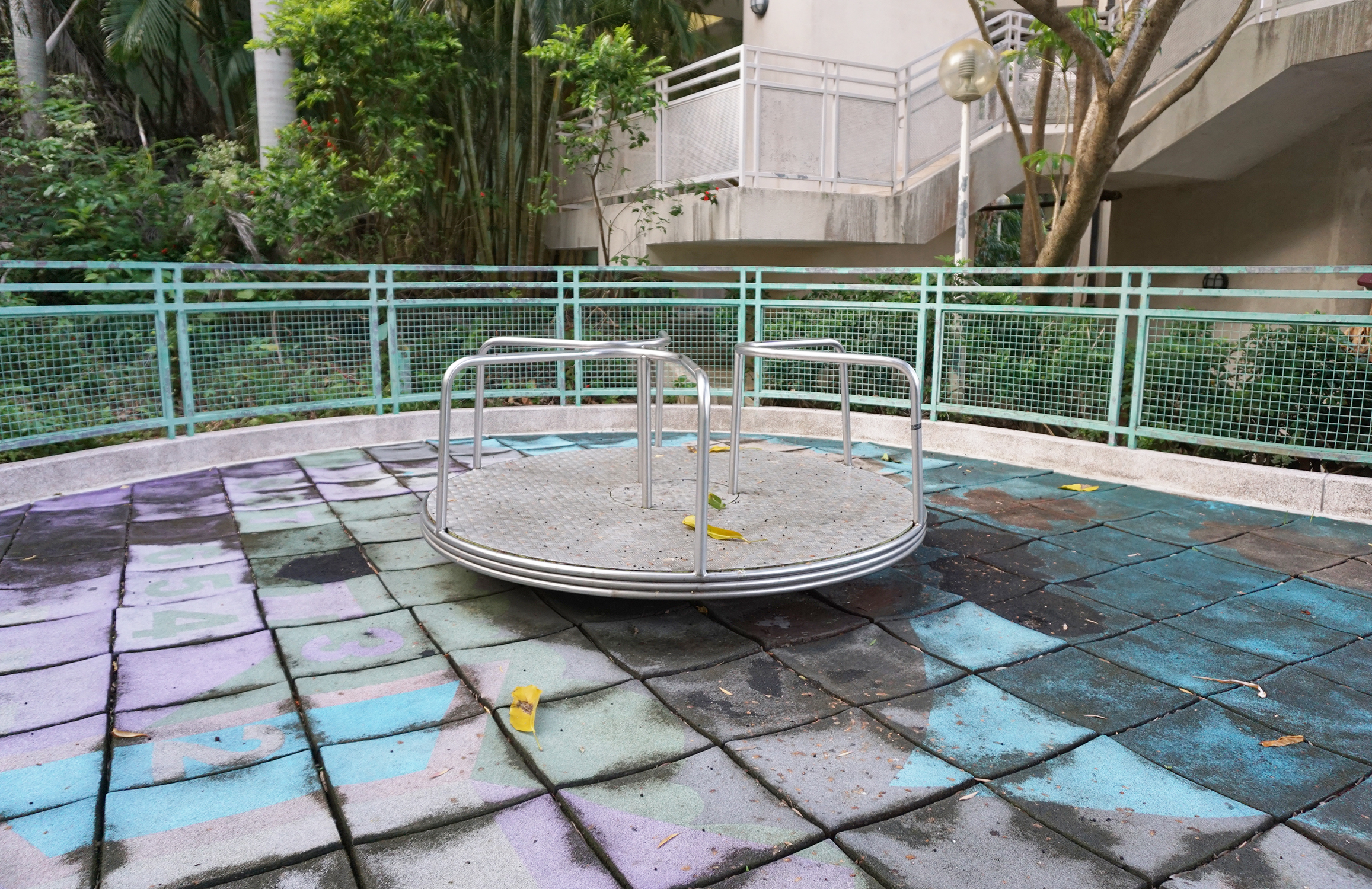 Lung Tak Court in Stanley, Hong Kong.